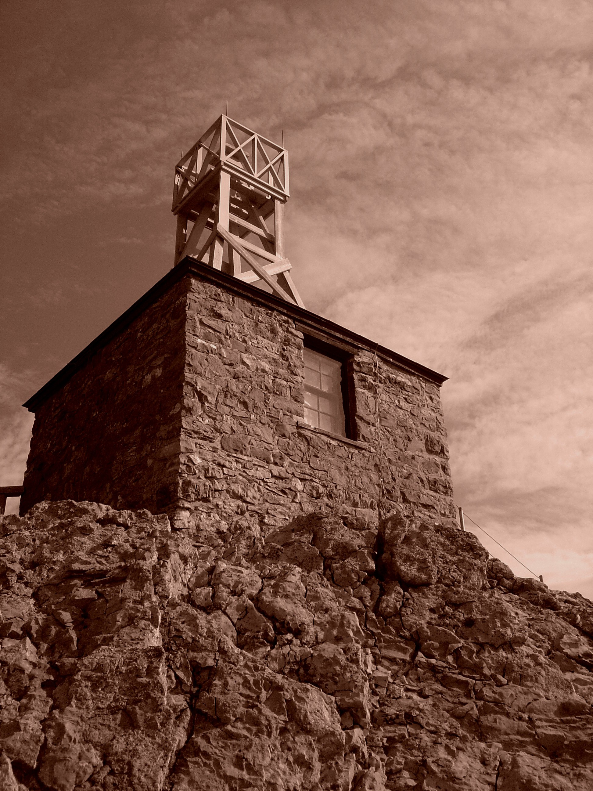 Banff Meteorological station- original building